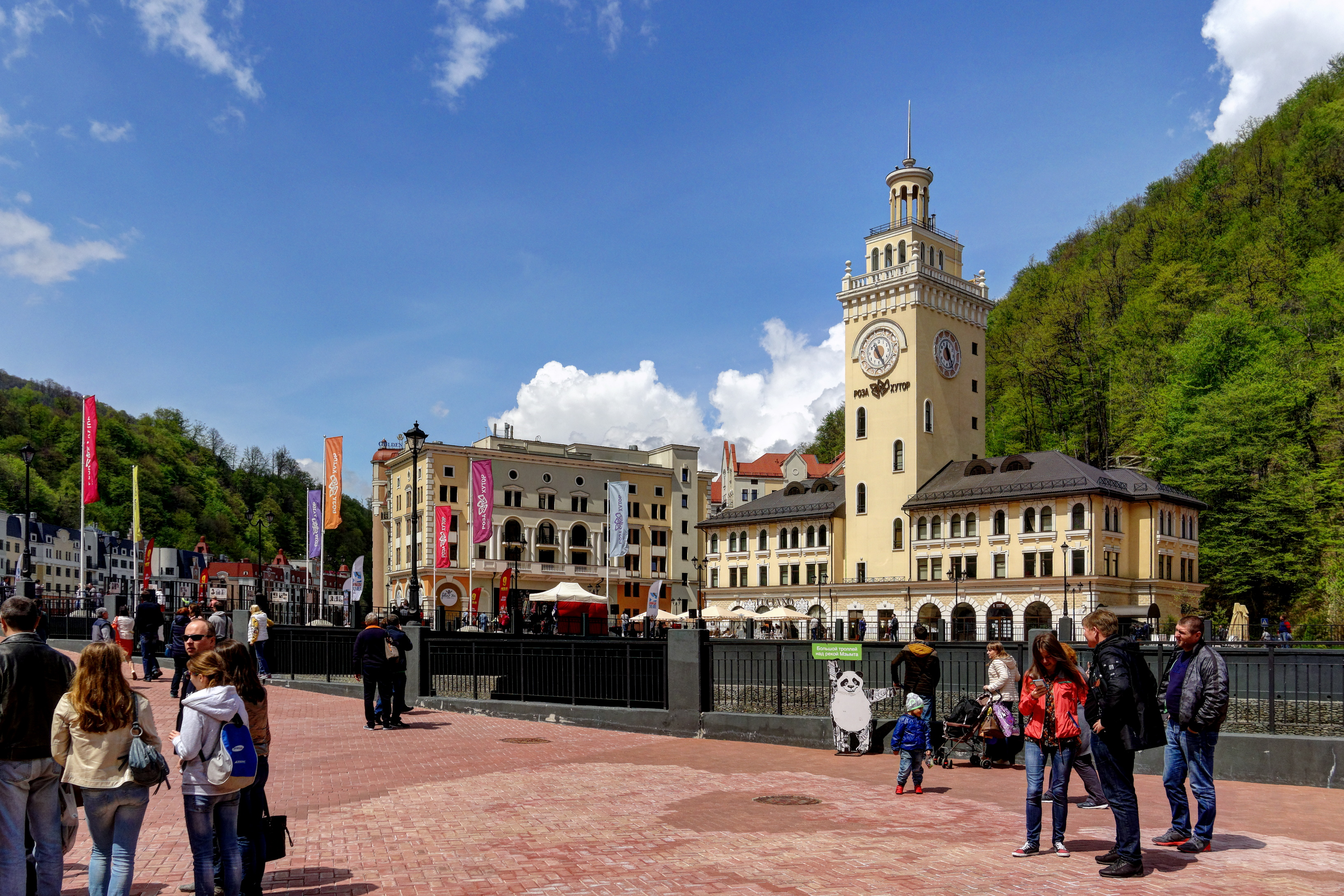 Krasnaya Polyana. Rosa Khutor